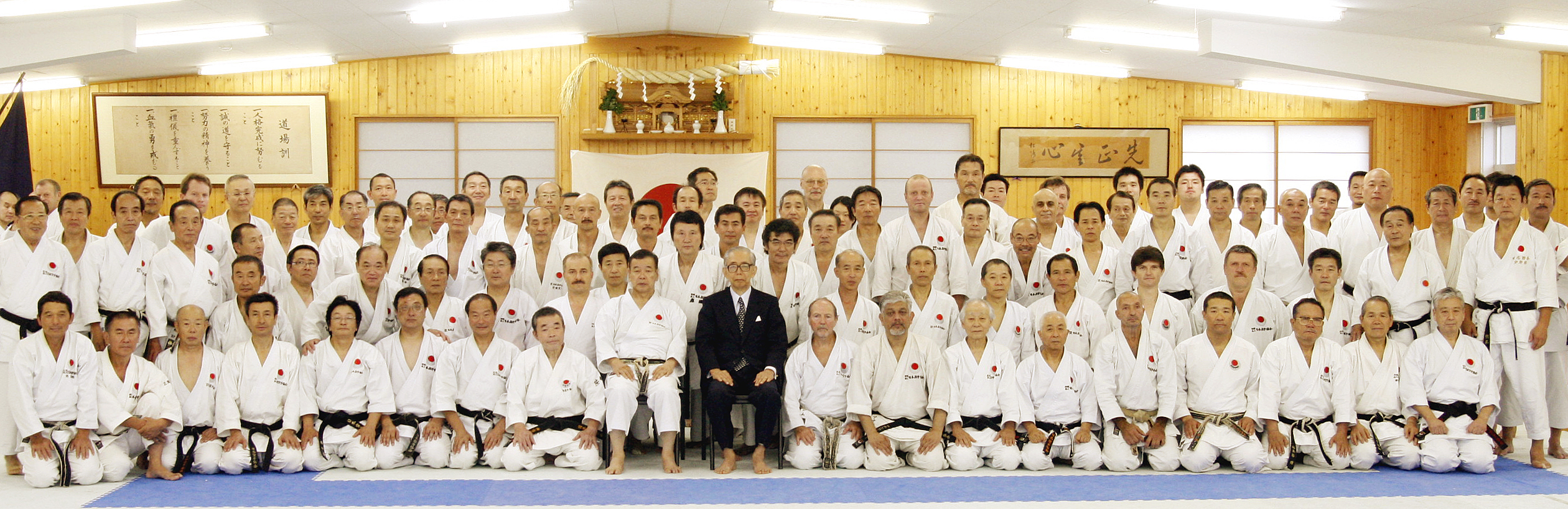 This picture is taken on October 2010 at the Japan Karate Association HQ where the annual gashku (training) has been conducted, the picture shows the grand masters of karate and the very seniors ones. In this training the first arab high qualified instructor in the age of 60 Sensi Abdulrahman al hadad has recieved his 7th Dan rank which is considered a land mark for the Karate sports in the Arab World